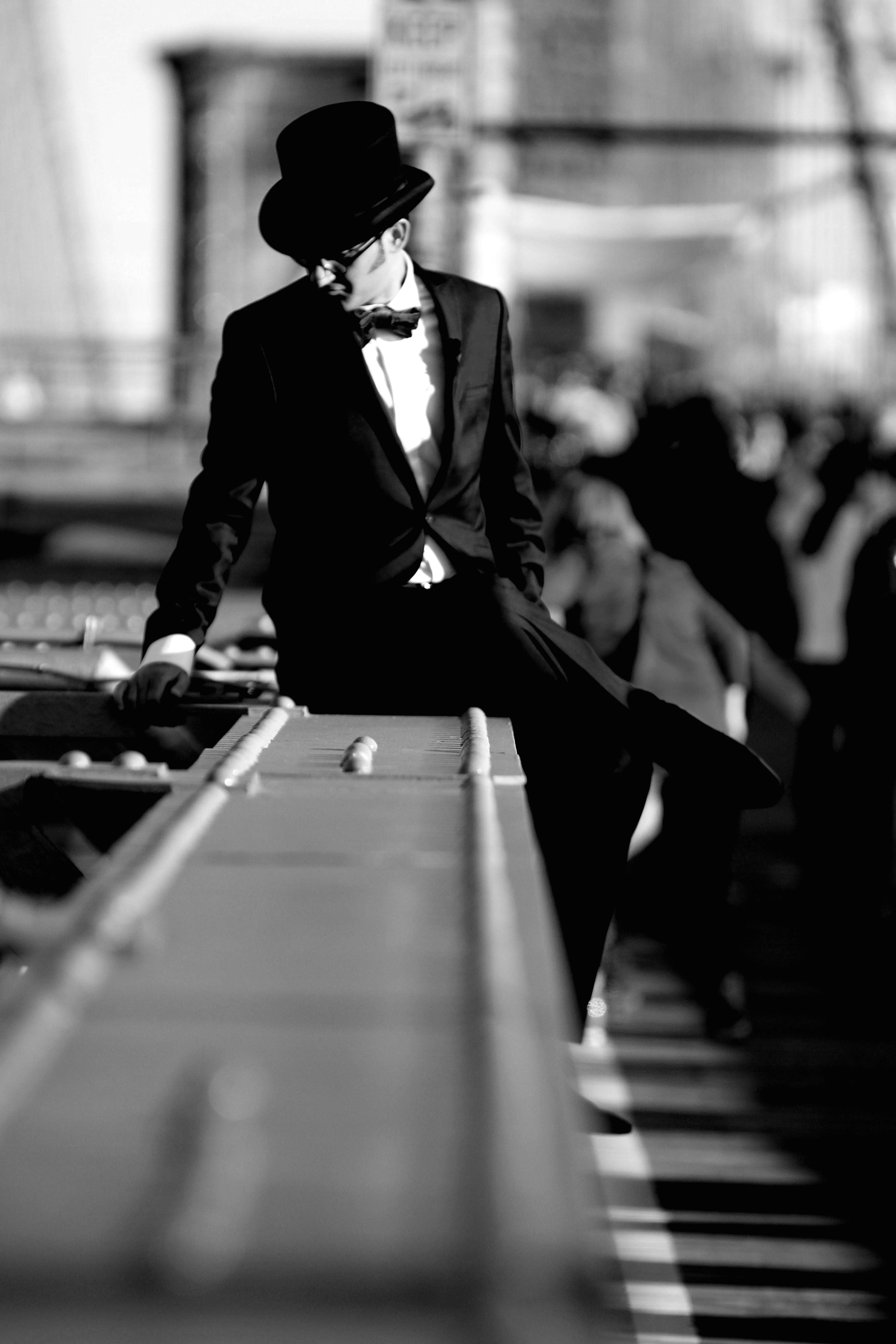 Saman Samadi, Brooklyn Bridge, New York, NY, October 2013, By John Morelli